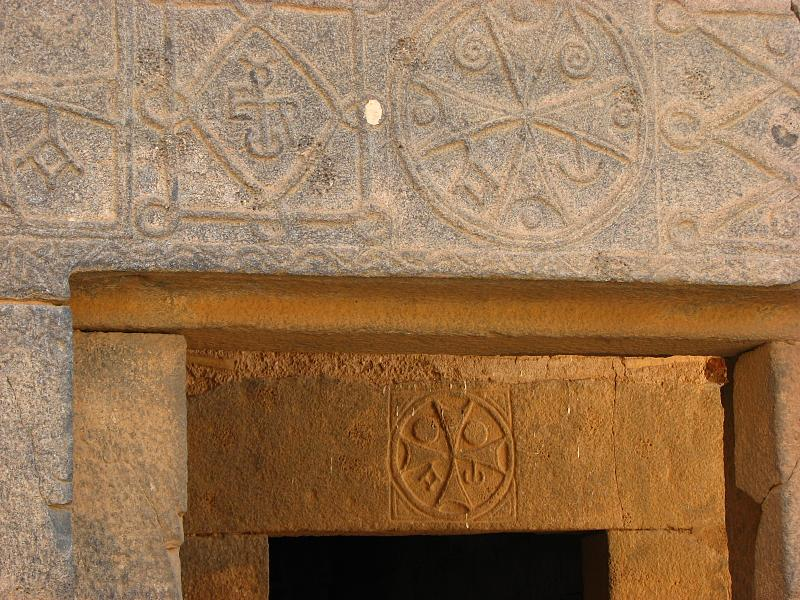 símbolos del castillo